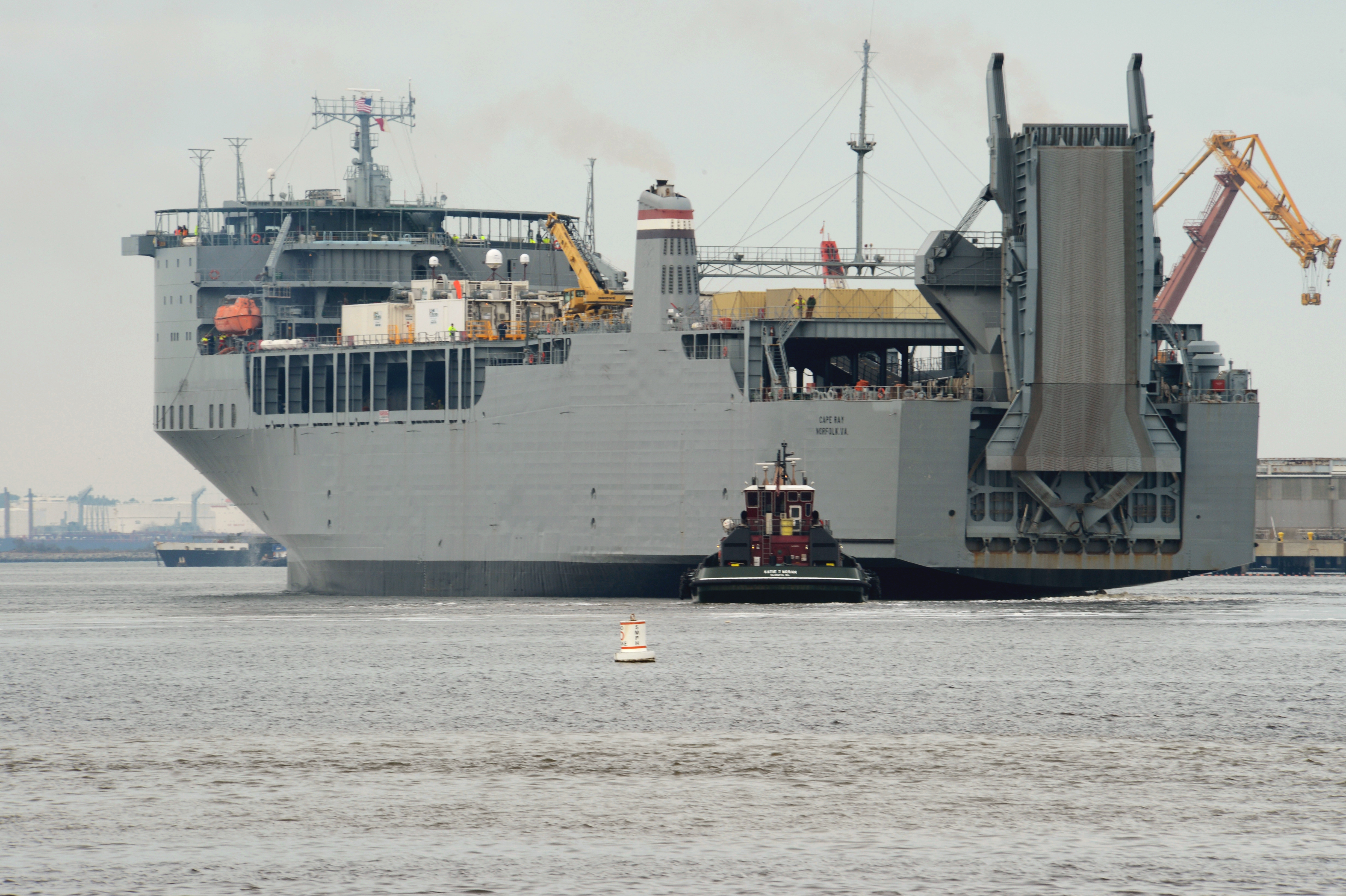 Military Sealift Command's container ship MV Cape Ray (T-AKR 9679) departs Port Norfolk for sea trials. (U.S. Navy photo by Mass Communication Specialist 3rd Class Lacordrick Wilson/Released)